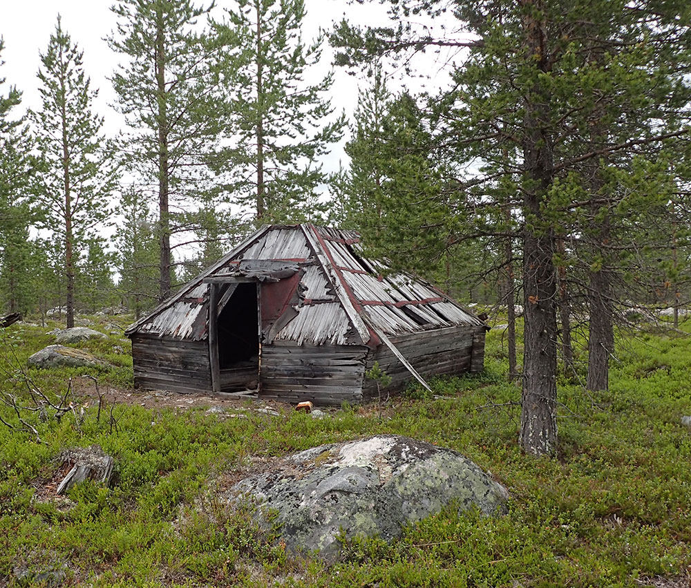 Sami wooden hut by lake Tjäktjajávrre (earlier ortography Tjäktjaure).